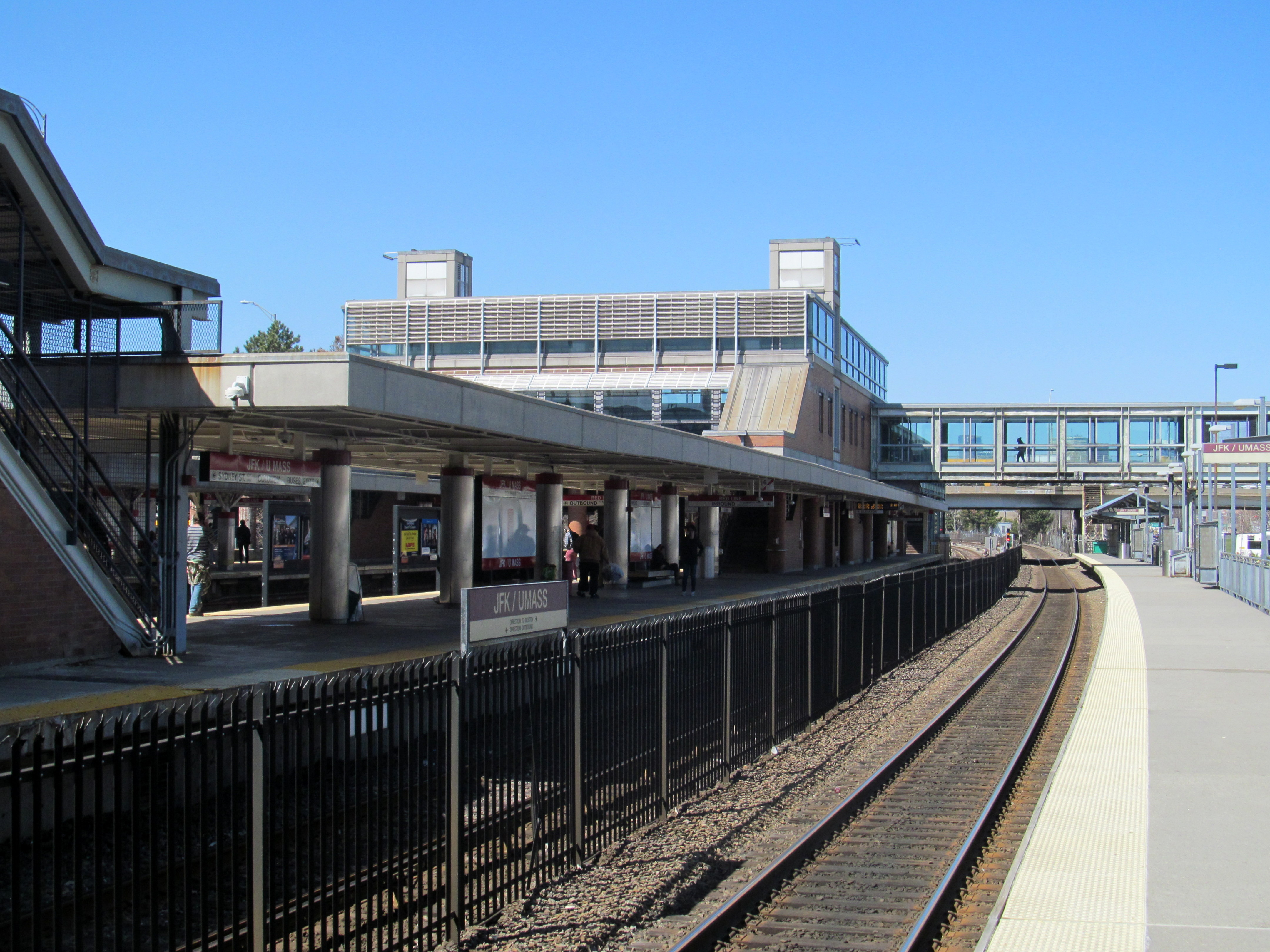 JFK/UMass station viewed from the commuter rail platform in April 2016